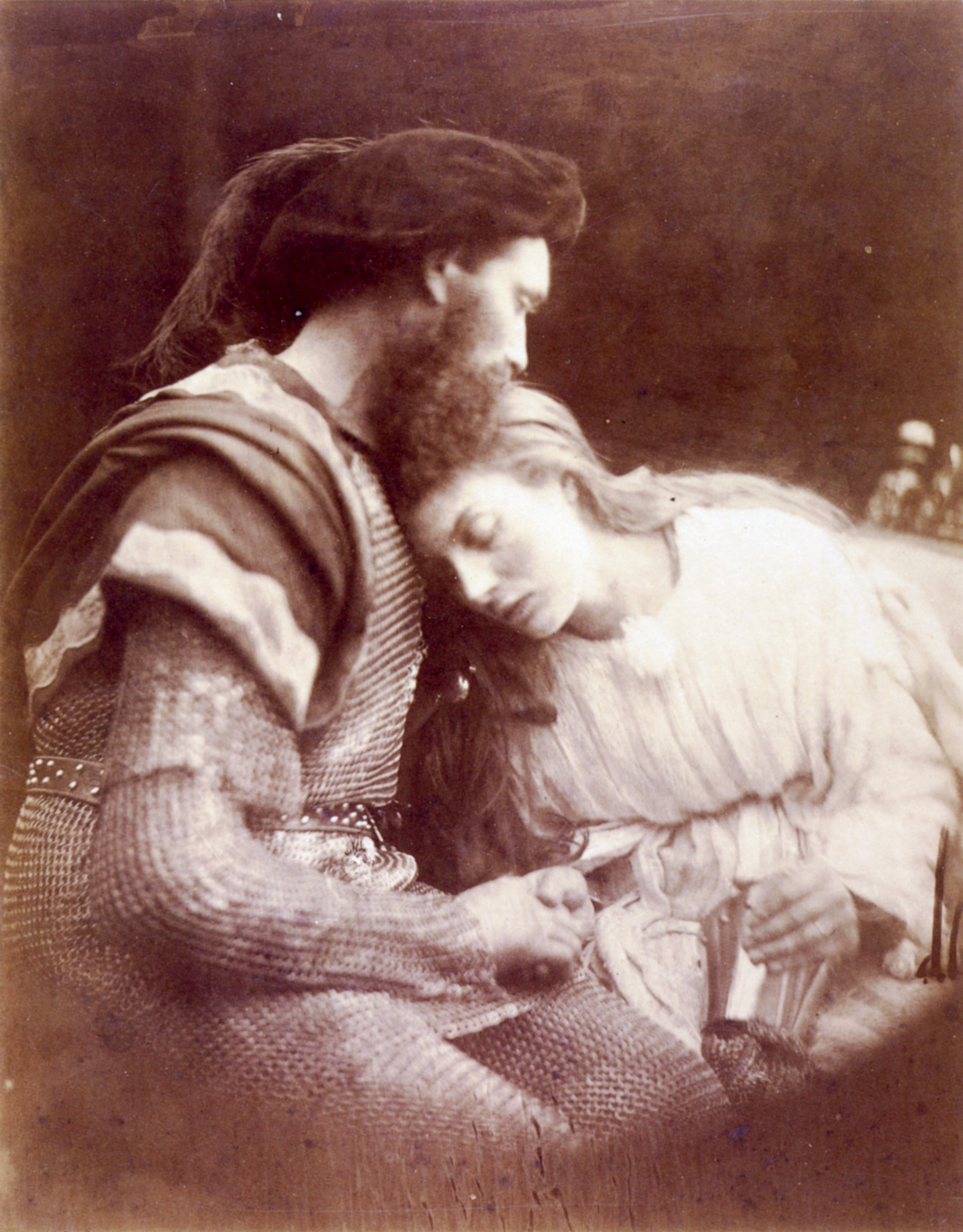 The Parting of Sir Lancelot and Queen Guinevere (Illustration to Tennyson's Idylls of the King and Other Poems). Sitters are Andrew Hichens and May Prinsep. Albumen print, 342 x 266mm (13 1/2 x 10 1/2").